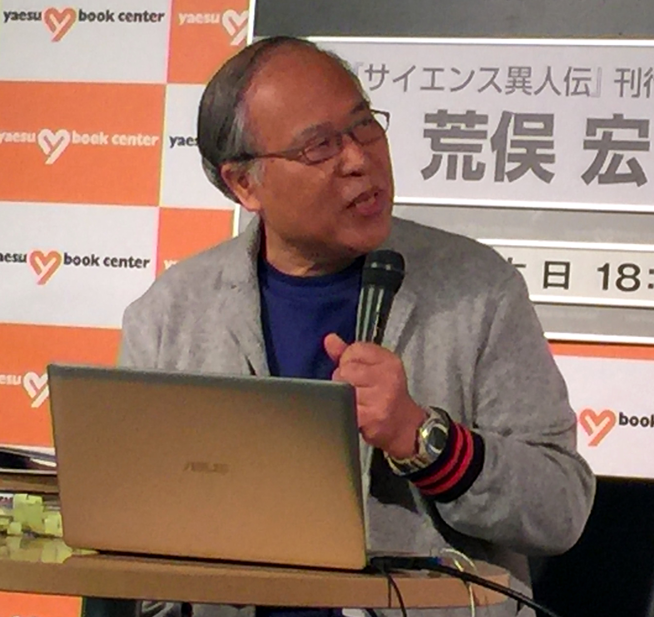 Hiroshi Aramata, Visiting Professor of the College of Art and Design, Musashino Art University, talked about サイエンス異人伝 at the Yaesu Book Center in Chūō Ward, Tōkyō Metropolis on April 28, 2015.